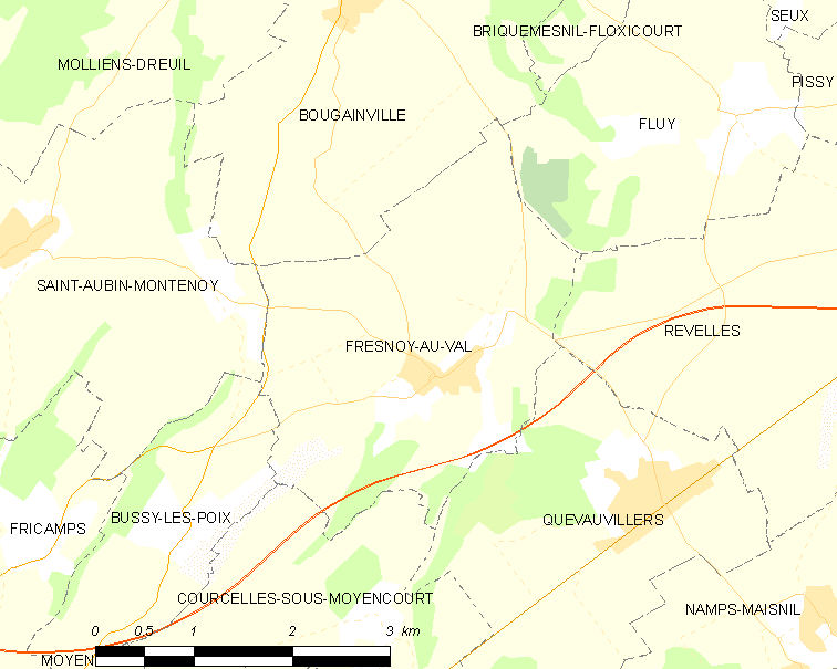 Map of French municipality Fresnoy-au-Val